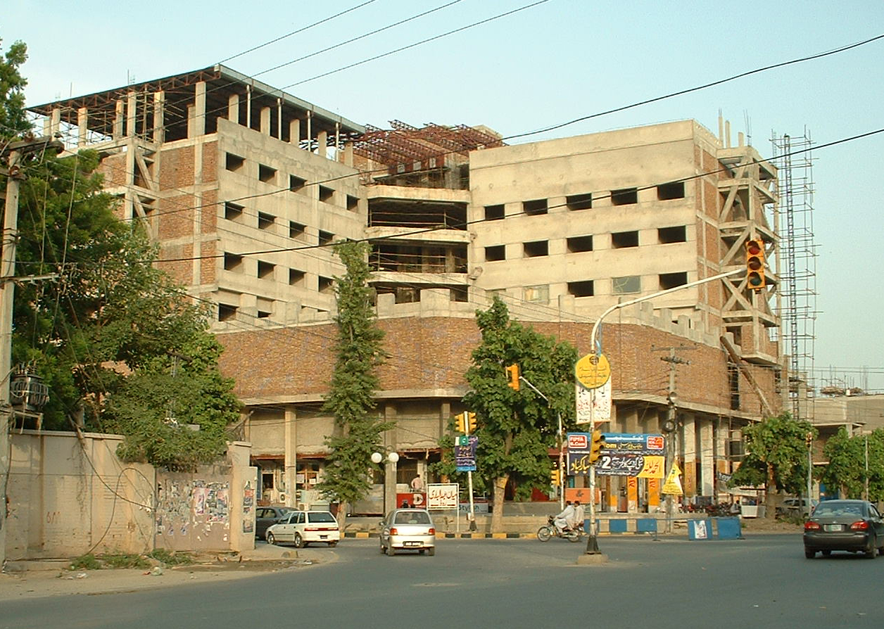 Ripple Plaza at D Ground Park, Faisalabad